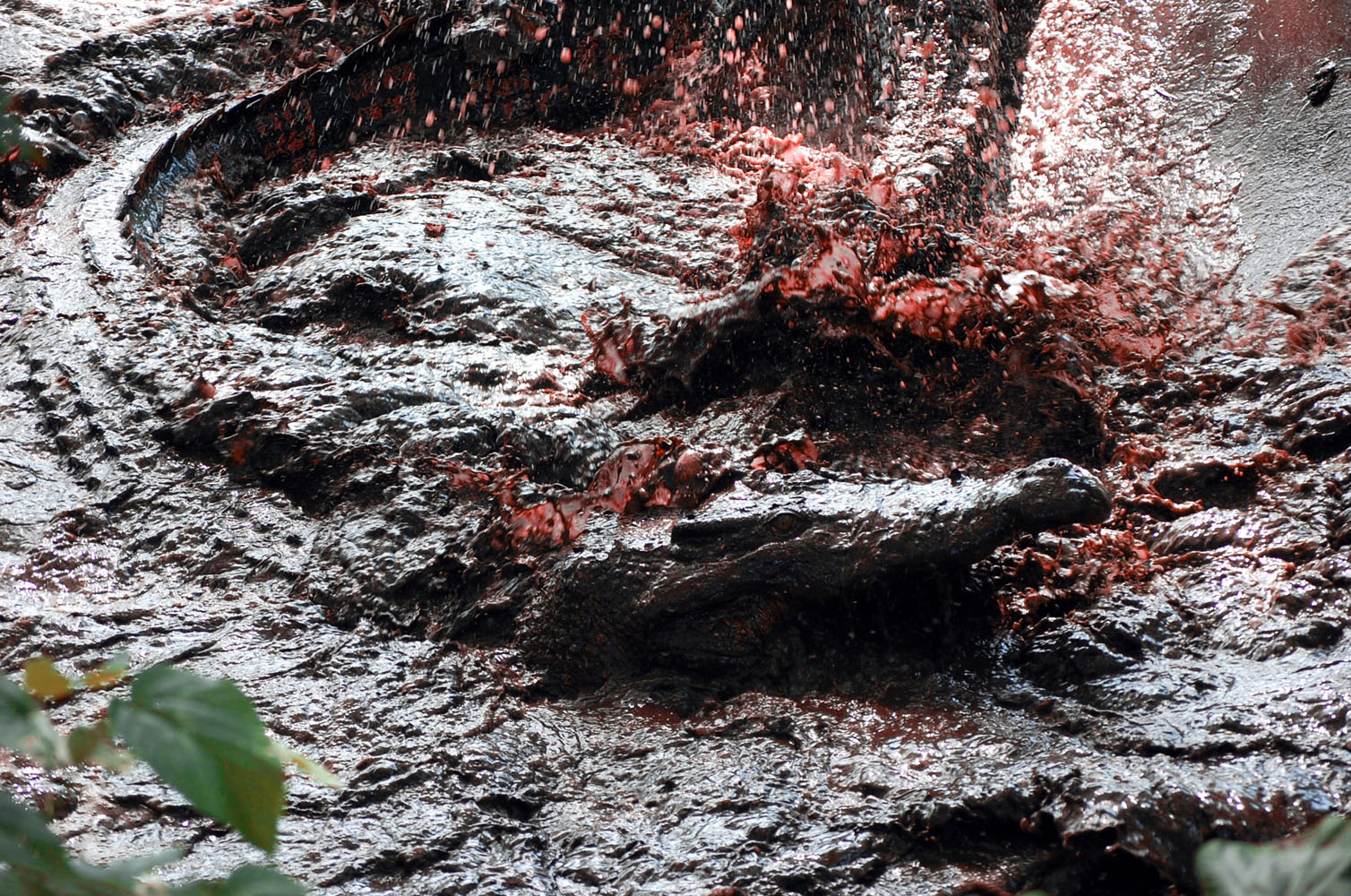 Several estuarine crocodiles (Crocodylus porosus) engaging in a feeding frenzy over a domestic pig carcass at a crocodile farm on the island of Palawan in the Philippines. Photographed in 2012 by Gregg Yan.